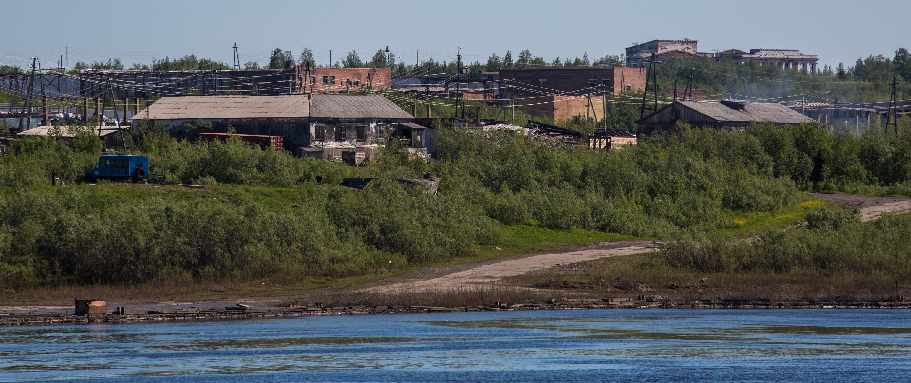 Igarka seen from the Yenisei River